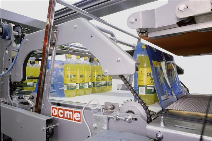 Shrink-wrapping machine by OCME S.r.L. for a soft drink packing line.